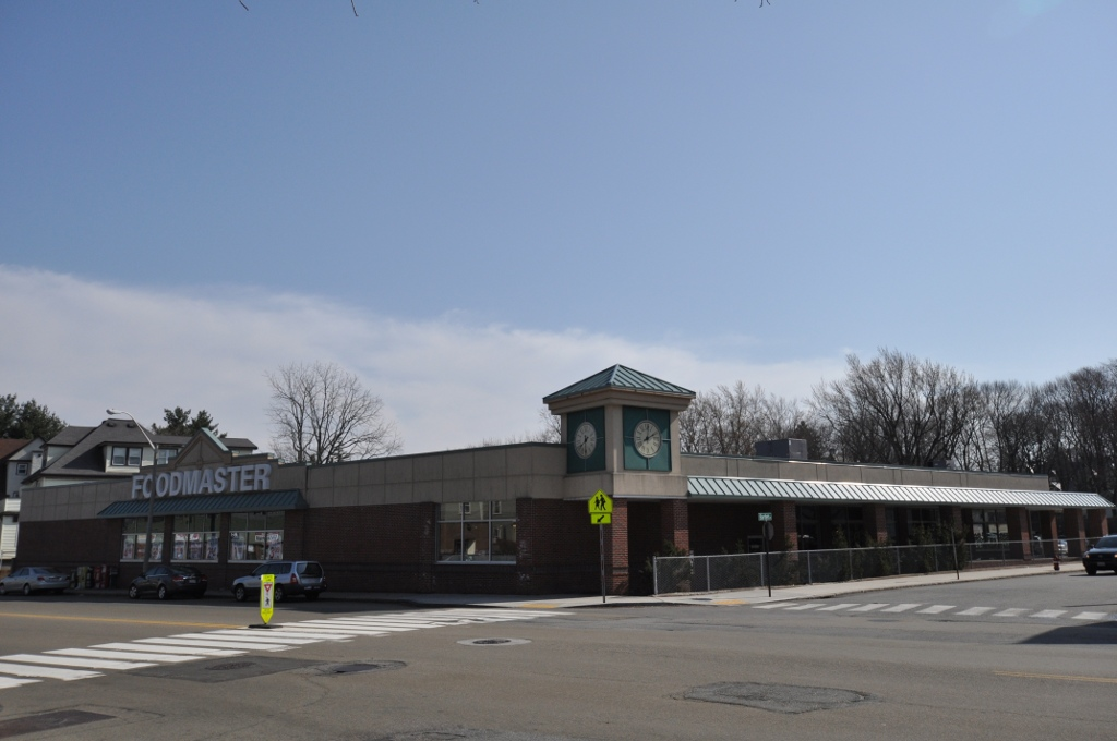 Johnnie's Foodmaster supermarket in Arlington, MA; this building became a Whole Foods supermarket in 2013.